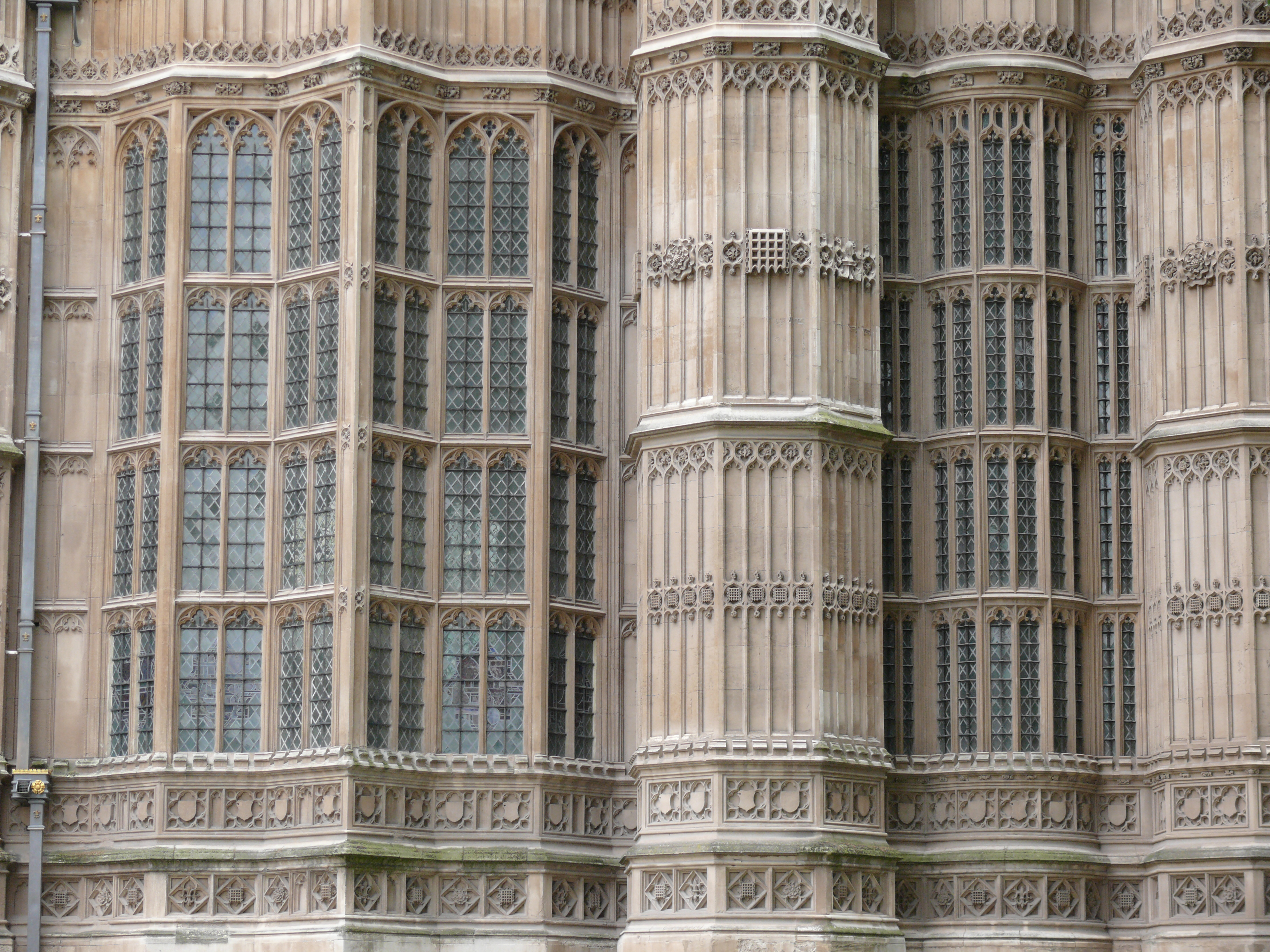 The Lady Chapel / Henry VII's chapel (1503-12), Westminster Abbey